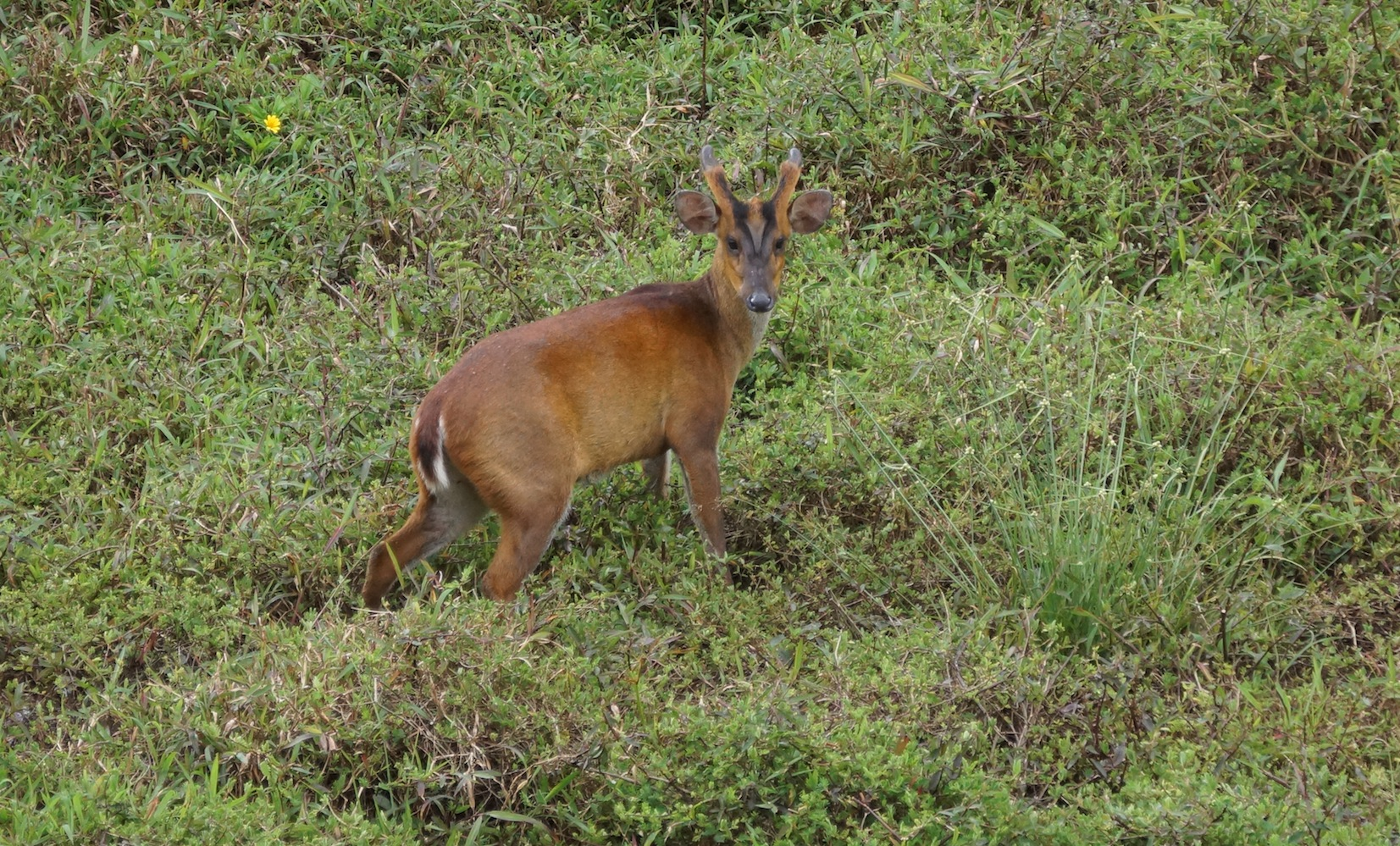 The Indian Muntjac is grassing in the swamp.